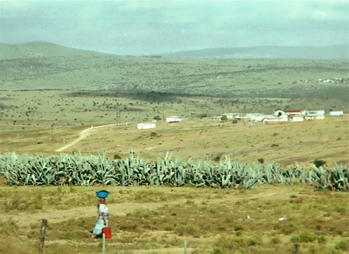 Picture of rural Ciskei /my own photo /GFDL